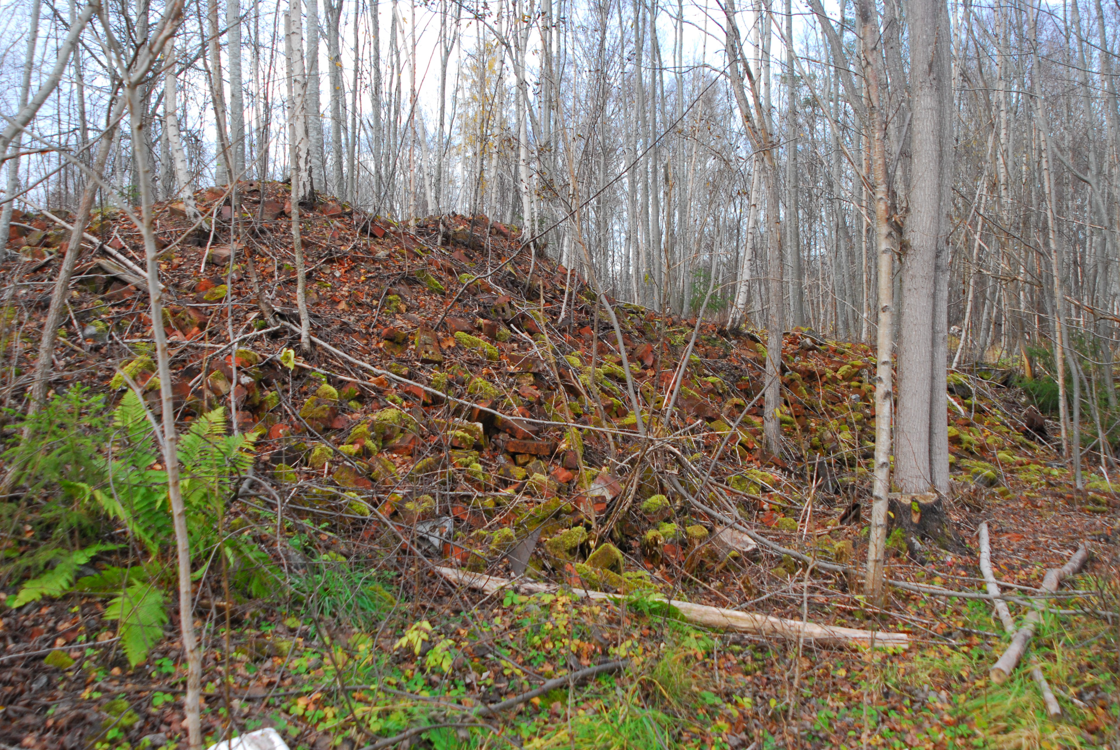 Horndals bruk, Avesta Municipality, Sweden. A pile of bricks in the area where blast furnance once stood (demolished in the 1970s).